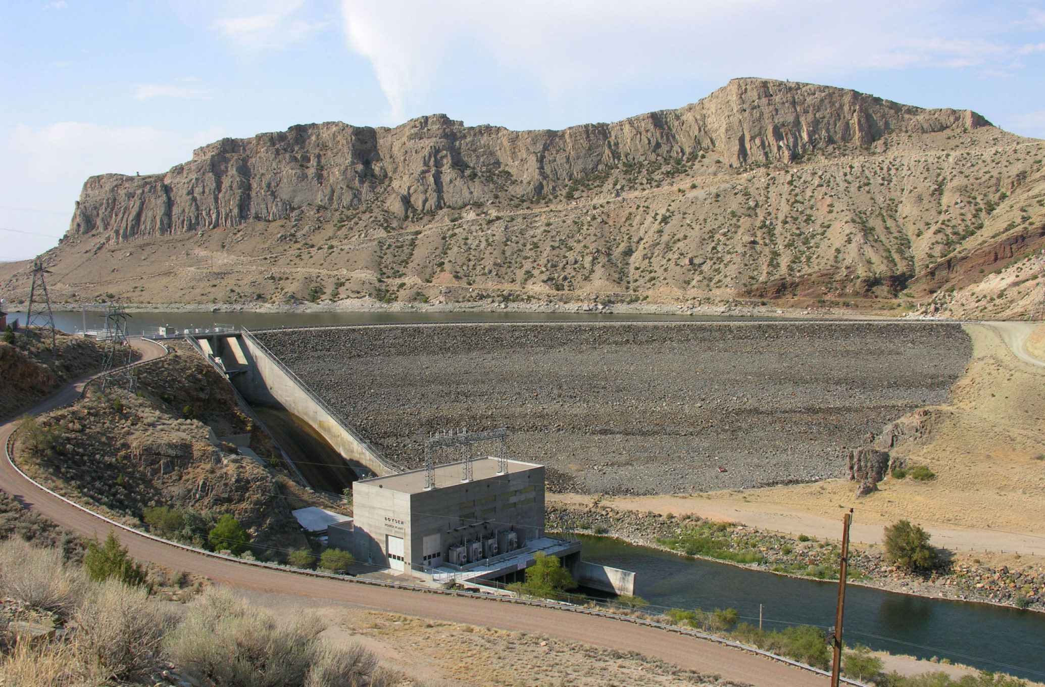 The Boysen Dam on the Wind River in Wyoming, July 2012.